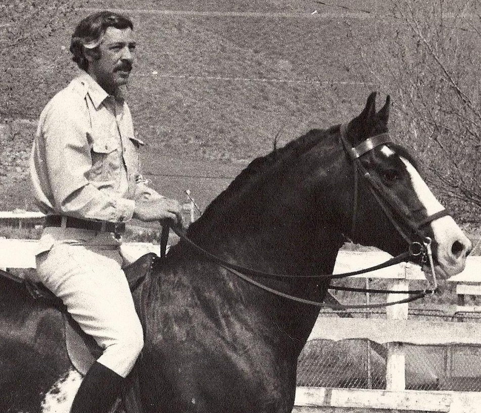 Anthony Amaral on a horse in the Carson Valley, NV circa 1970